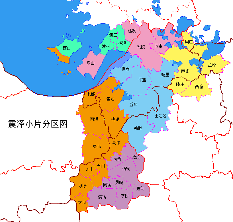 Map of Cjien-Drek Dialects(Tha-vu)